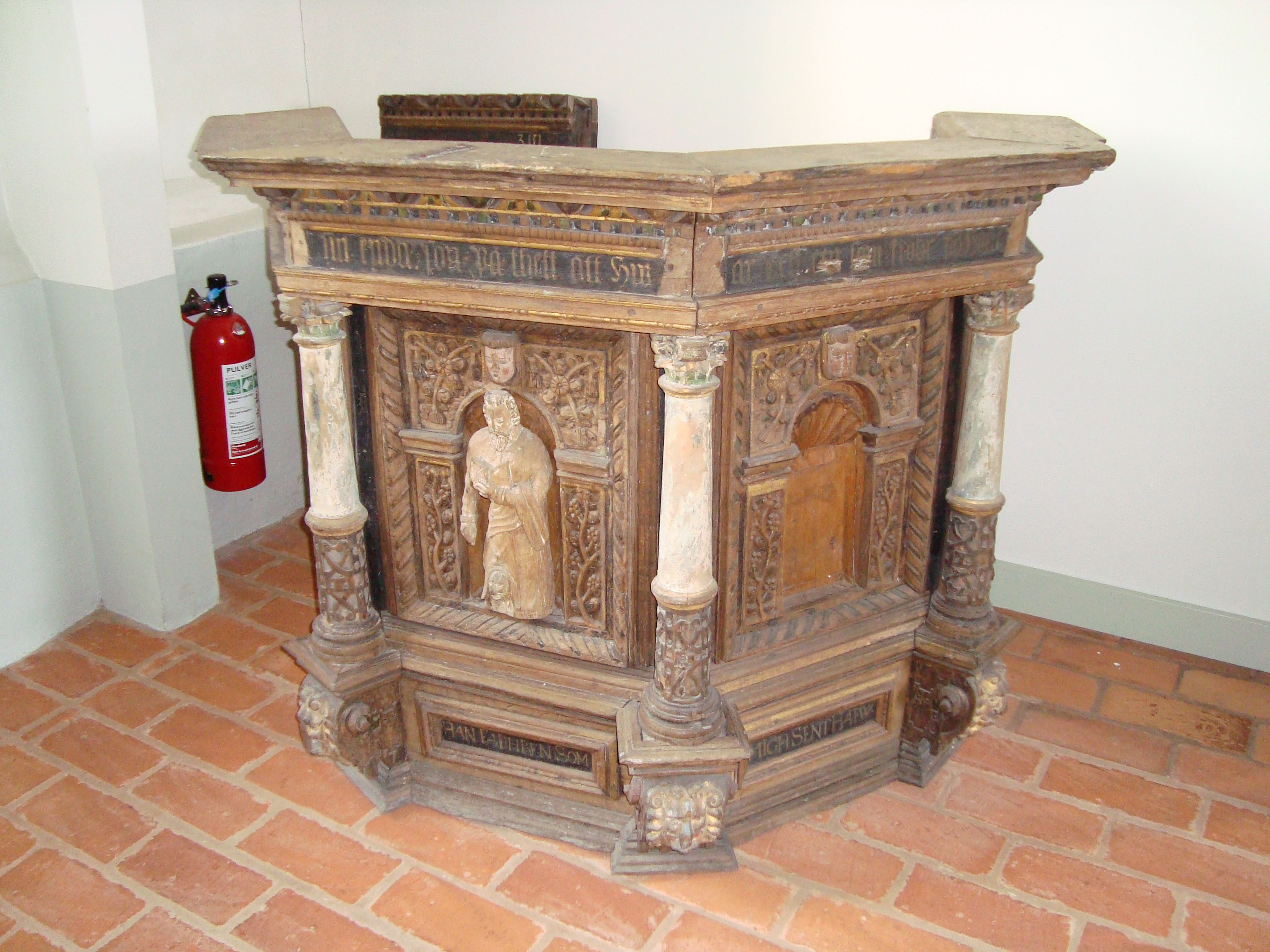 Old pulpit of Husby church, Hedemora municipality, Sweden